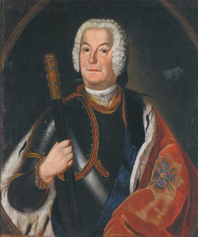 Portrait of Paweł Karol Sanguszko (1680-1750)